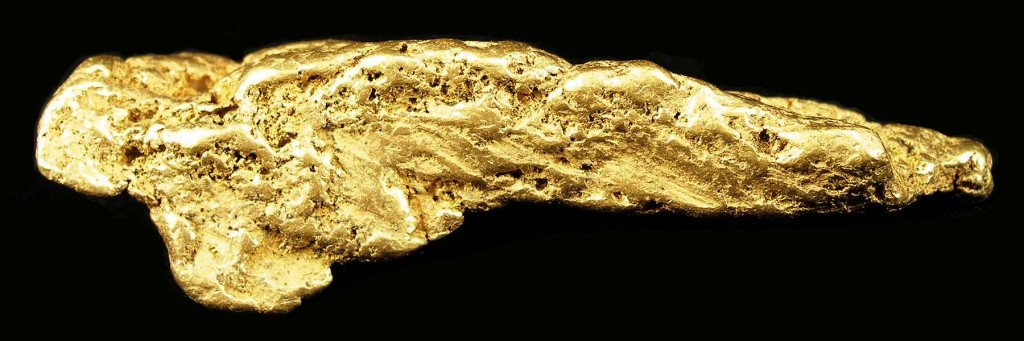 Gold Locality: Yuba River Placers area, Nevada County, California, USA (Locality at ) Size: 8.3 x 2.8 x 2.3 cm. This is a beautiful nugget of approximately 6 ounces that comes from the historic Yuba River placers area. It was mined and kept in a family collection since the 1950s or 1960s, I was told by my source, who sold that particular family collection. It has a bright, brassy patina, really interesting and curvaceous form, and a lot of surface volume for the weight. Weighs 182 grams. For this locality, it is outstanding.